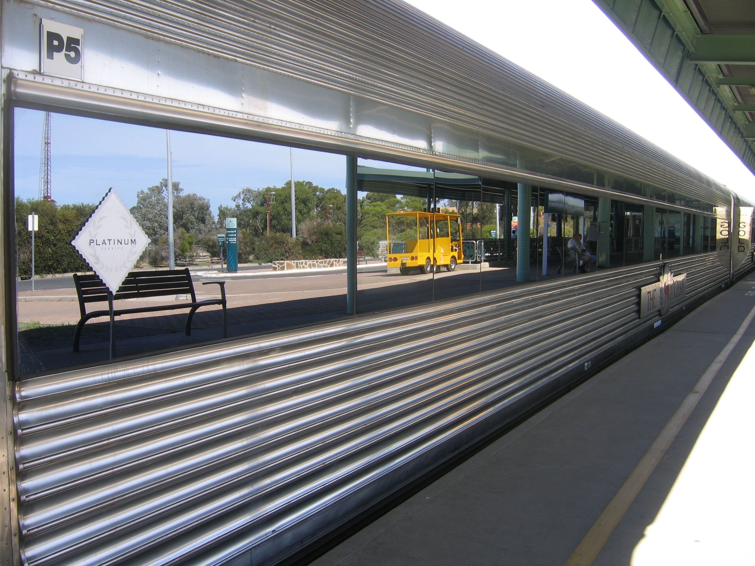 The Ghan, Platinium Class